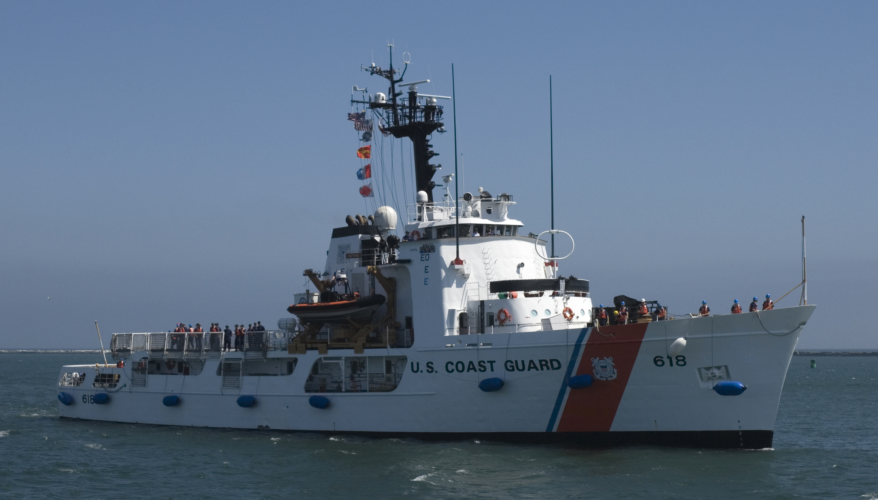 SAN PEDRO, Calif. – The U.S. Coast Guard Cutter Active arrives in Cabrillo Beach at berth 46 July 3 to take part in Coast Guard Days sponsored by the Navy League of Los Angeles. The Coast Guard Cutter Active (WMEC-618) homeported in Port Angeles, Wash. and is primarily assigned to law enforcement and search and rescue duties. (U.S. Coast Guard photo/Petty Officer 3rd Class Christina L. Bozeman) This image or file is a work of a United States Coast Guard service personnel or employee, taken or made as part of that person's official duties. As a work of the U.S. federal government, the image or file is in the public domain (17 U.S.C. § 101 and § 105, USCG main privacy policy and specific privacy policy for its imagery server).